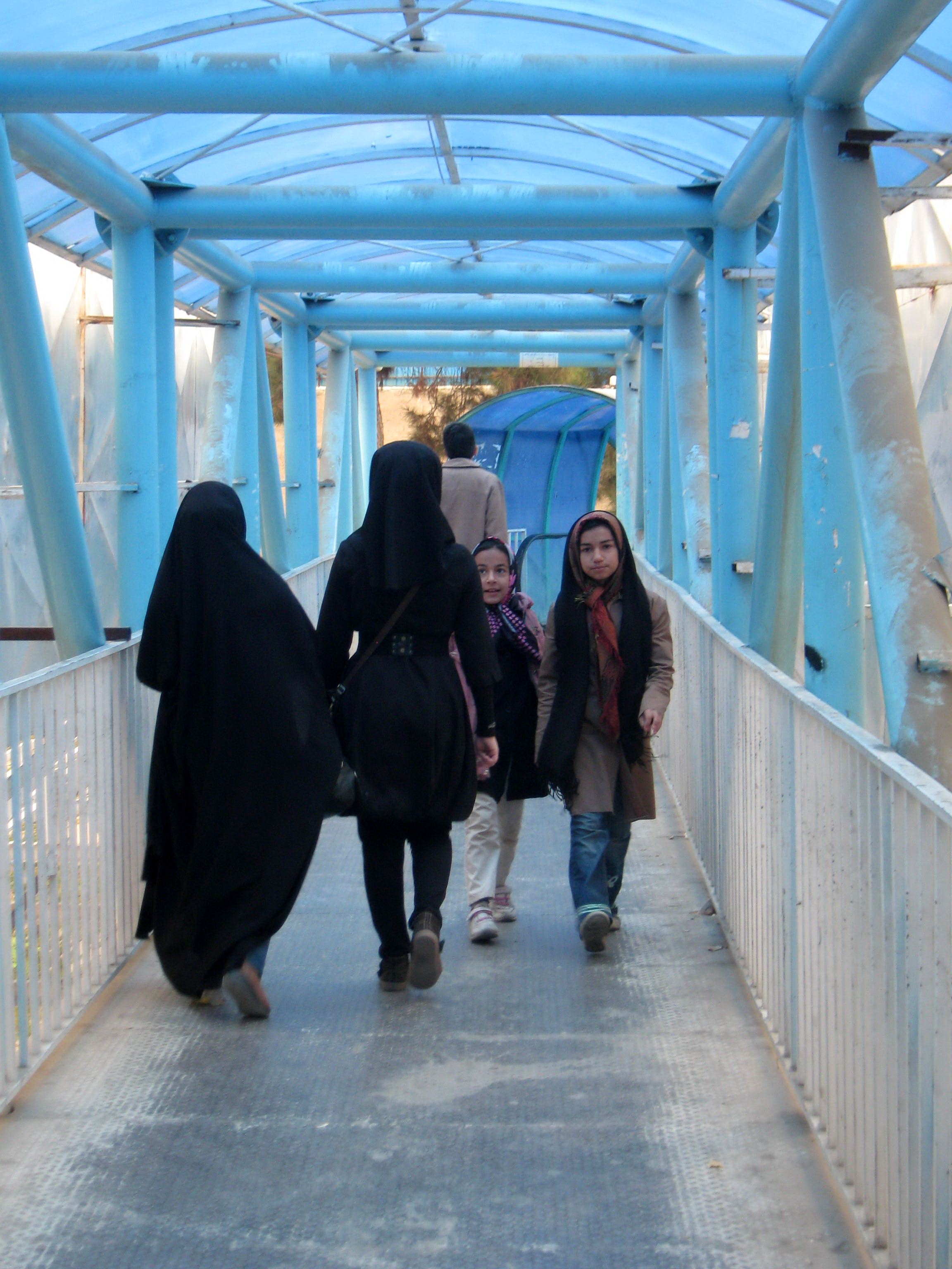 Passers in Skyway of Iran square ,Nishapur